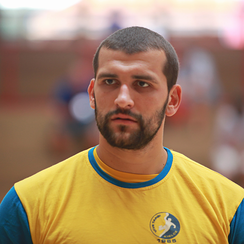 Željko Musa, on August 17th, 2012 in Ehingen (Germany), during the Sparkassen Cup (formerly known as Schlecker Cup).